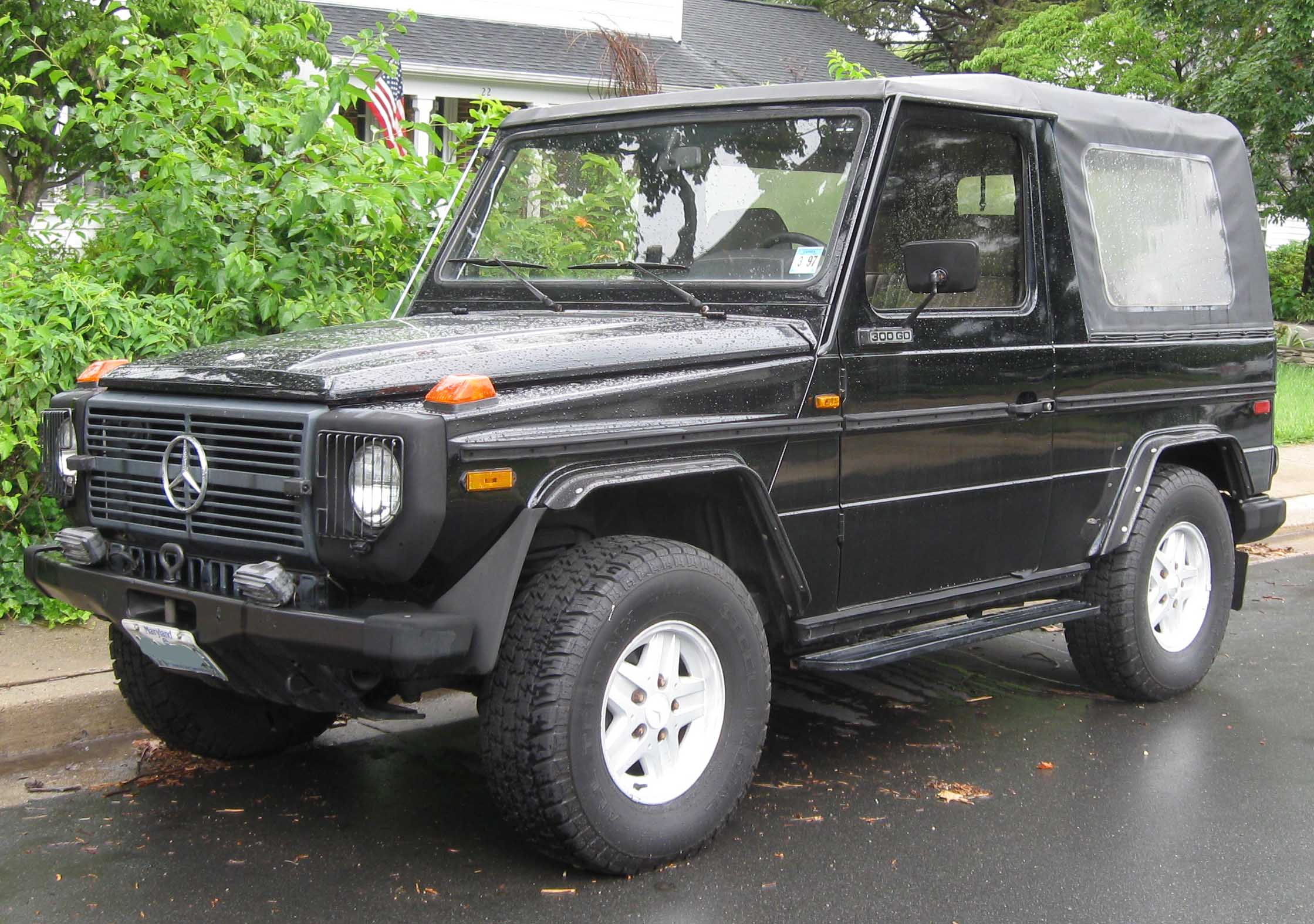 Mercedes-Benz G-Class photographed in Gaithersburg, Maryland, USA.